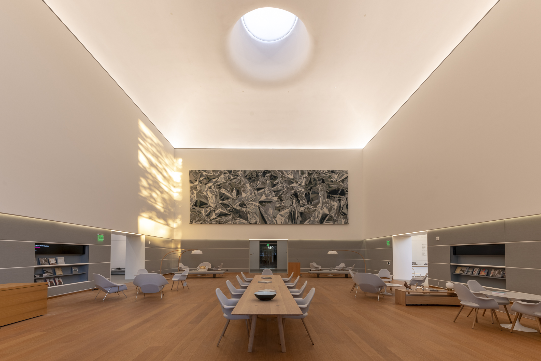 The majestic Ruth and Carl Shapiro Great Hall that serves as the Museum's “living room” and community space. Designed by Lord Norman Foster of Foster and Partners. The hall has 44-foot-high ceilings and an oculus allowing more light to flow into the building. The Great Hall also features The Coffee Bar, run by the renowned caterers Constellation Culinary Group.